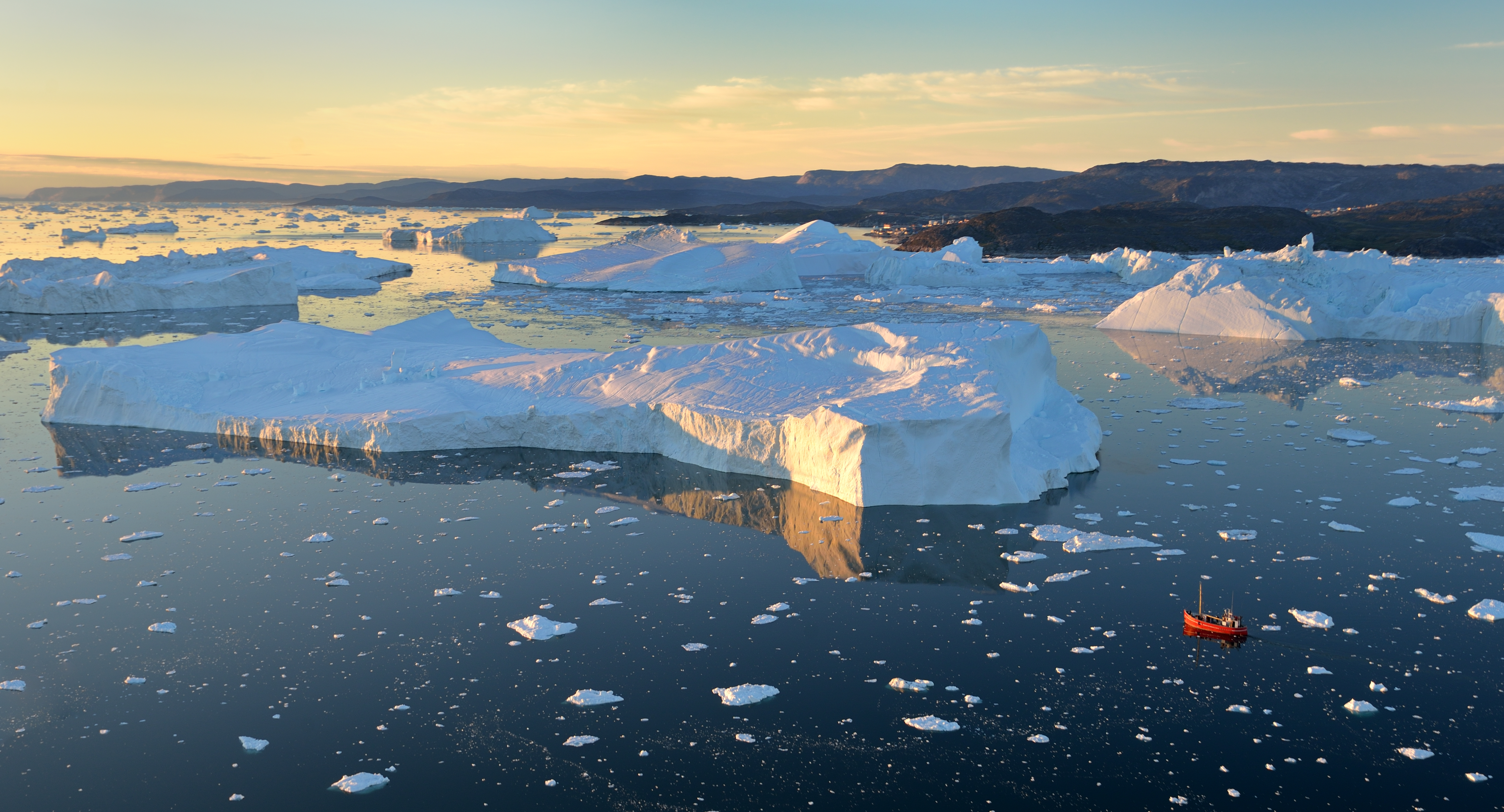 a boat sailing in the Ilulissat Icefjord, Greenland